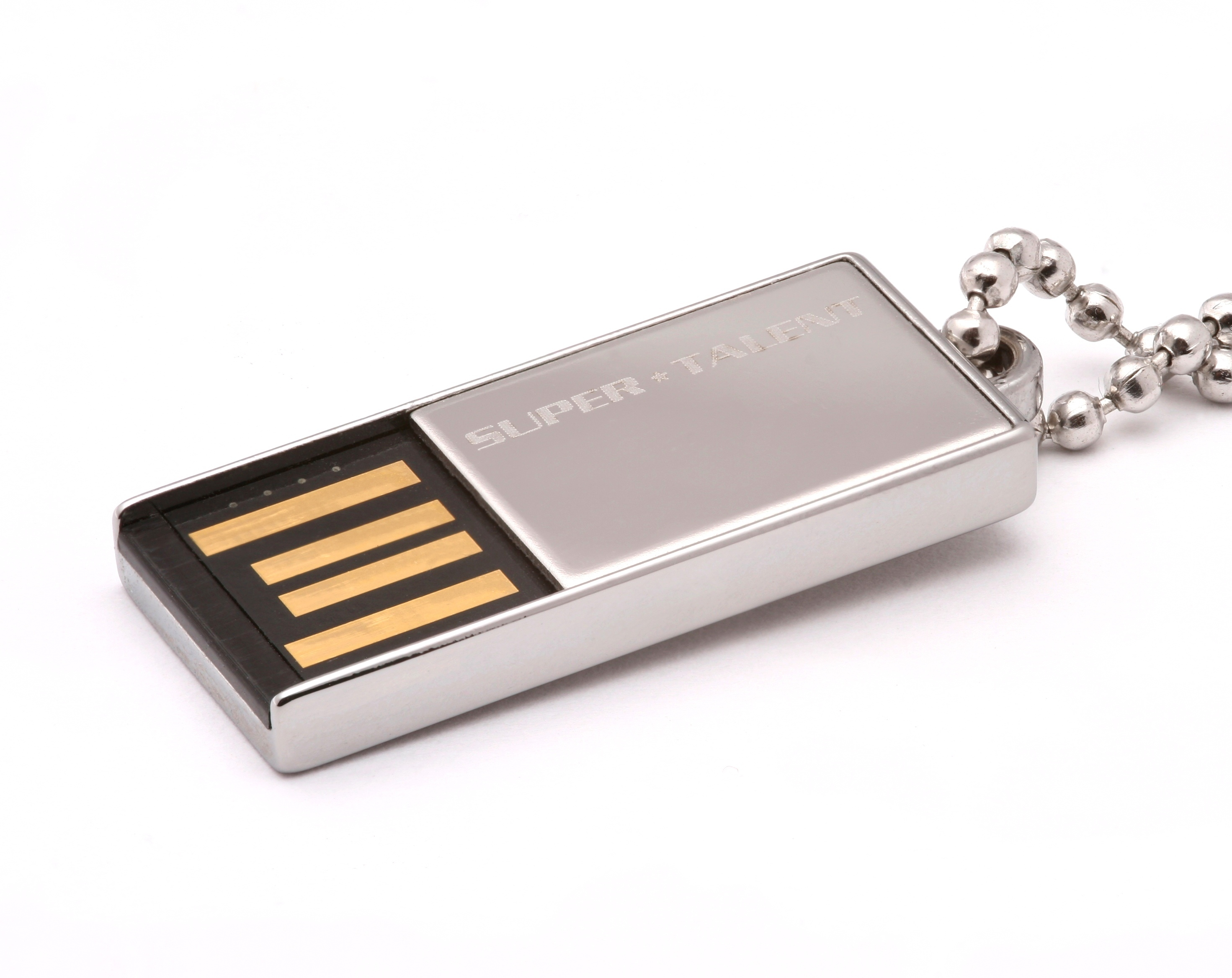 USB Flash Drive SuperTalent Pico-C 8 GB. Stainless steel casing, waterproof.